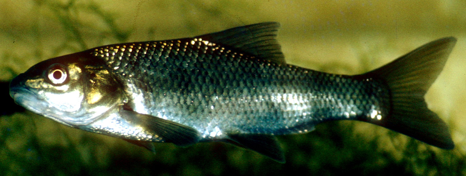 Carasobarbus canis x Capoeta damascina, aquarium photograph of SMF 17184, originally from Nahr az Zarqā’.